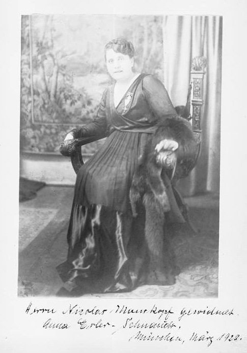 German singer Anna Erler-Schnaudt (1878—1963); the picture is signed for Nicolas Manskopf.